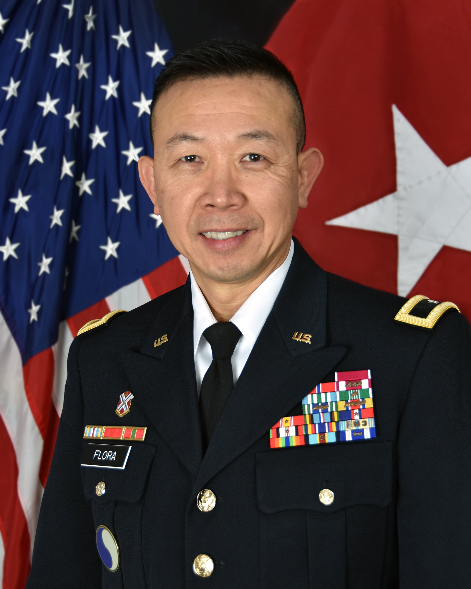 Brig. Gen. Lapthe C. Flora